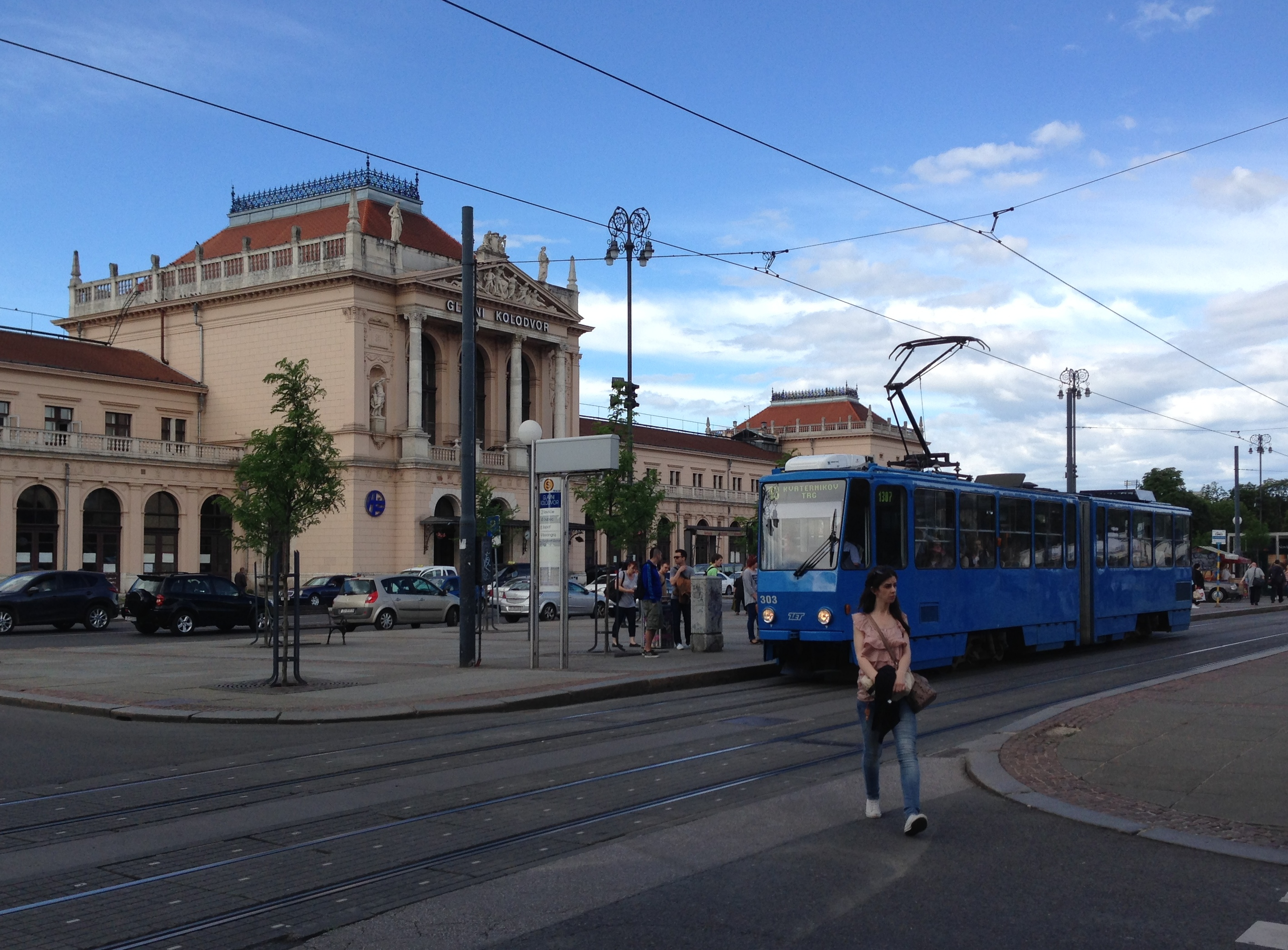 Zagreb Main Railway Station - 6